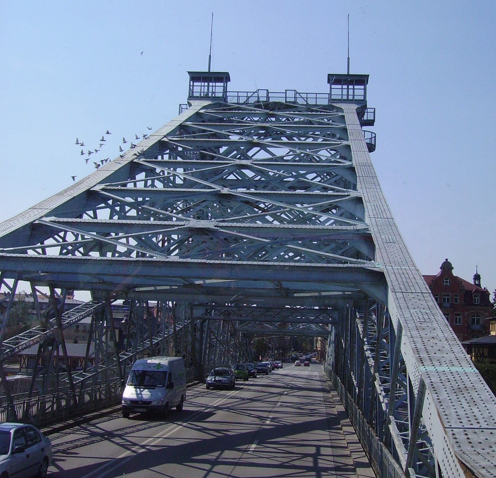 Blaues Wunder (bridge) in (Dresden, Germany)